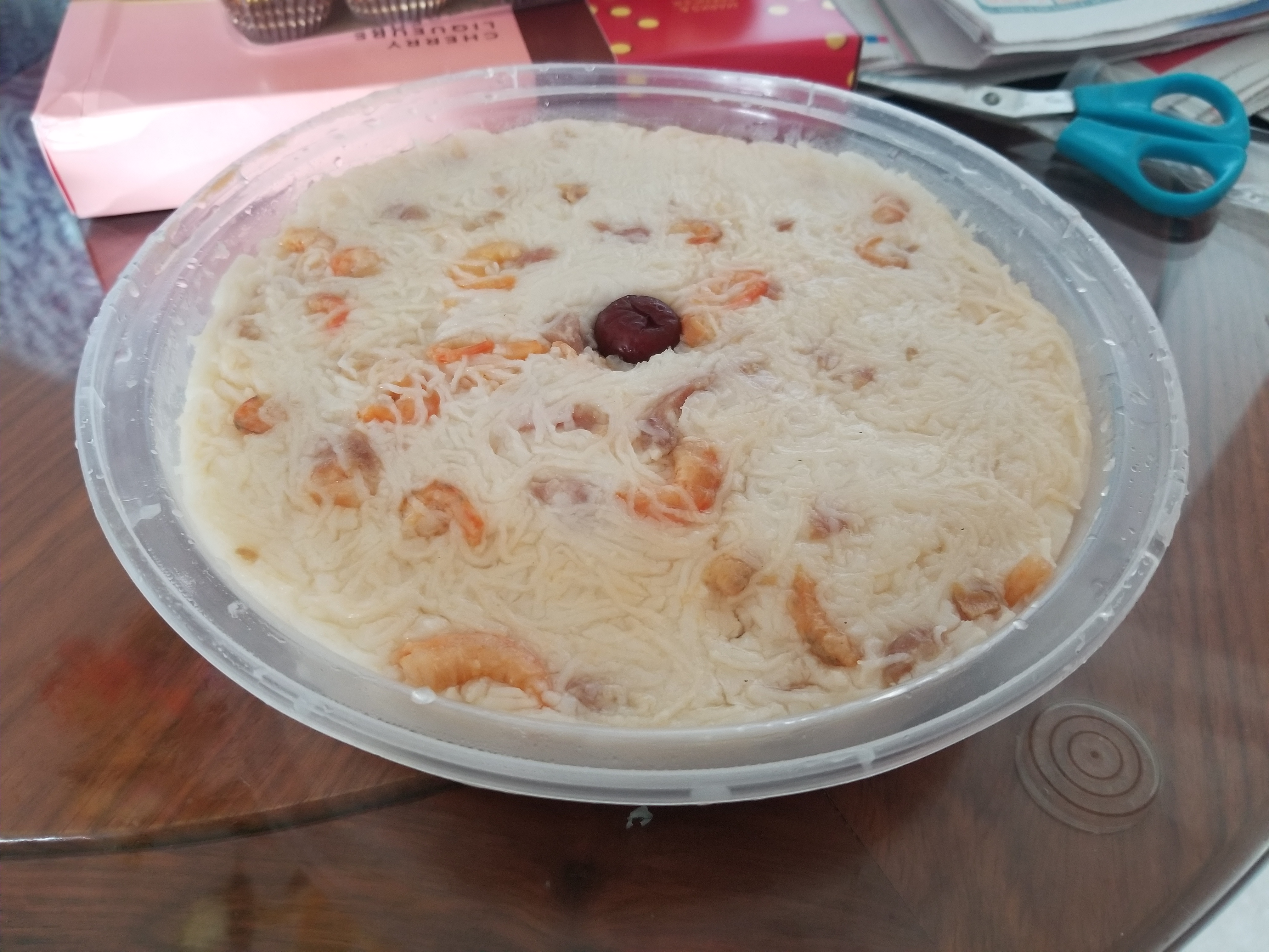 Carrot pudding in Chinese New Year at home